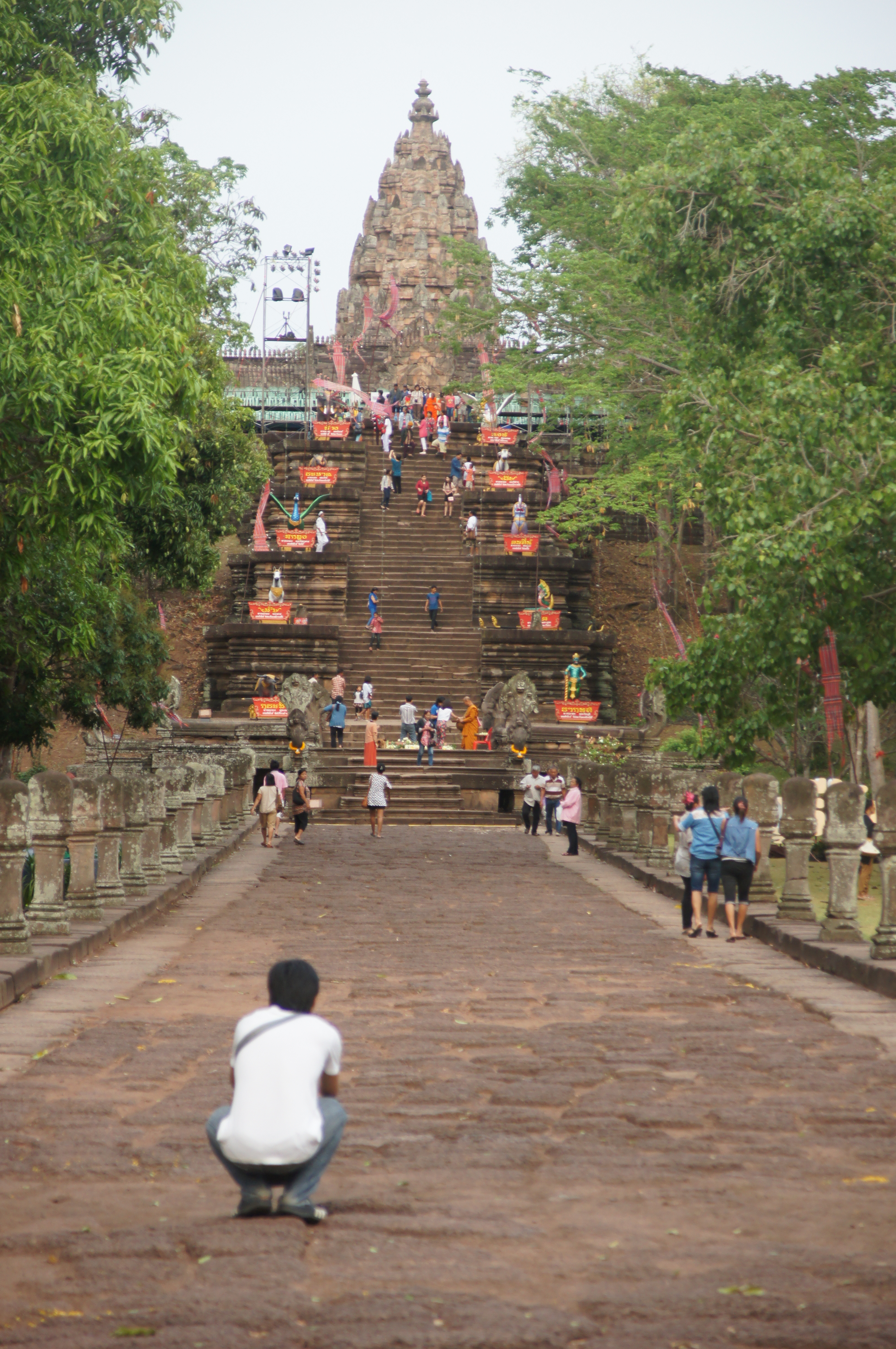 Phanom Rung castle pathway